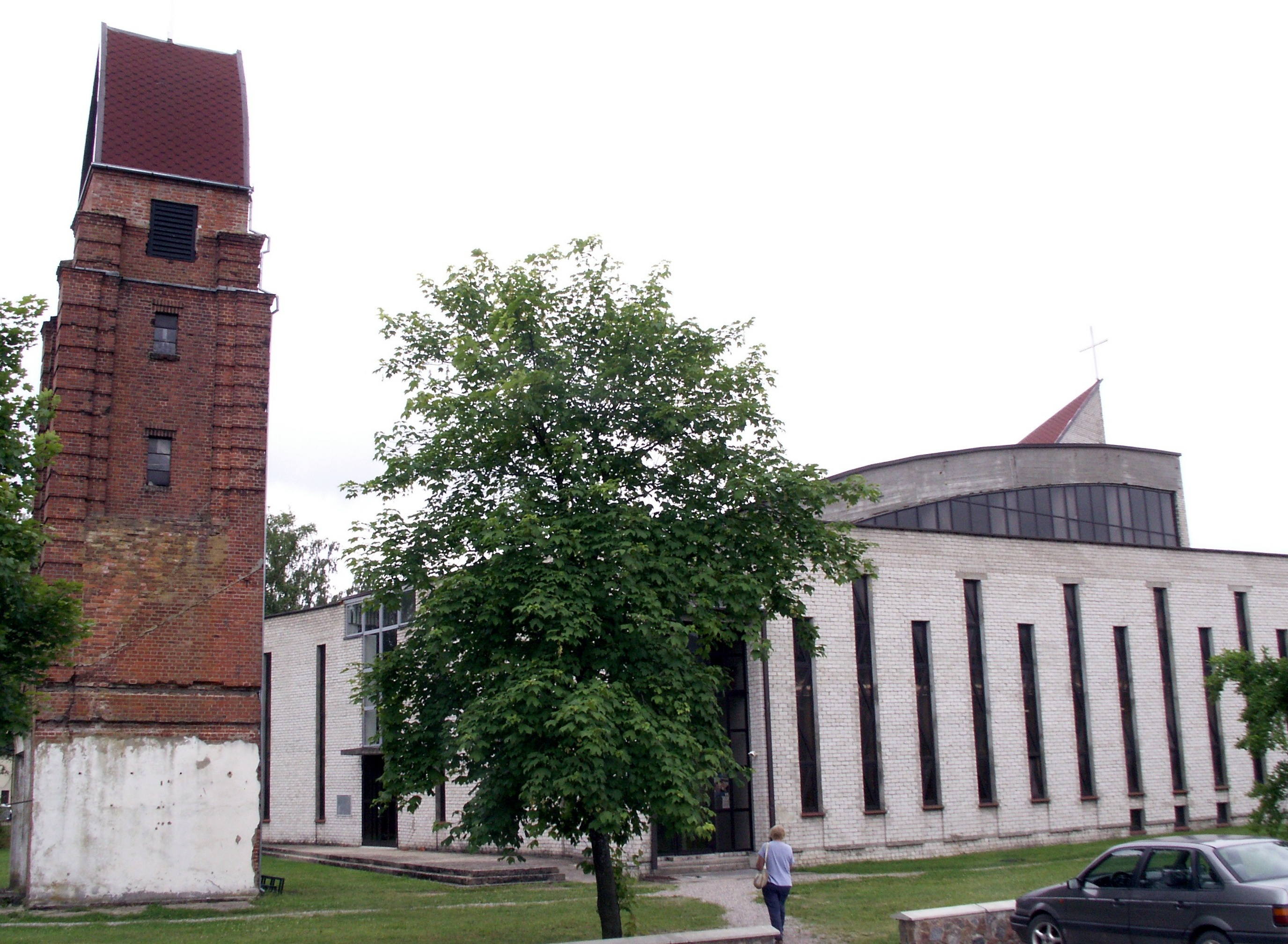 Churches in Pagėgiai, Pagėgiai district, Lithuania